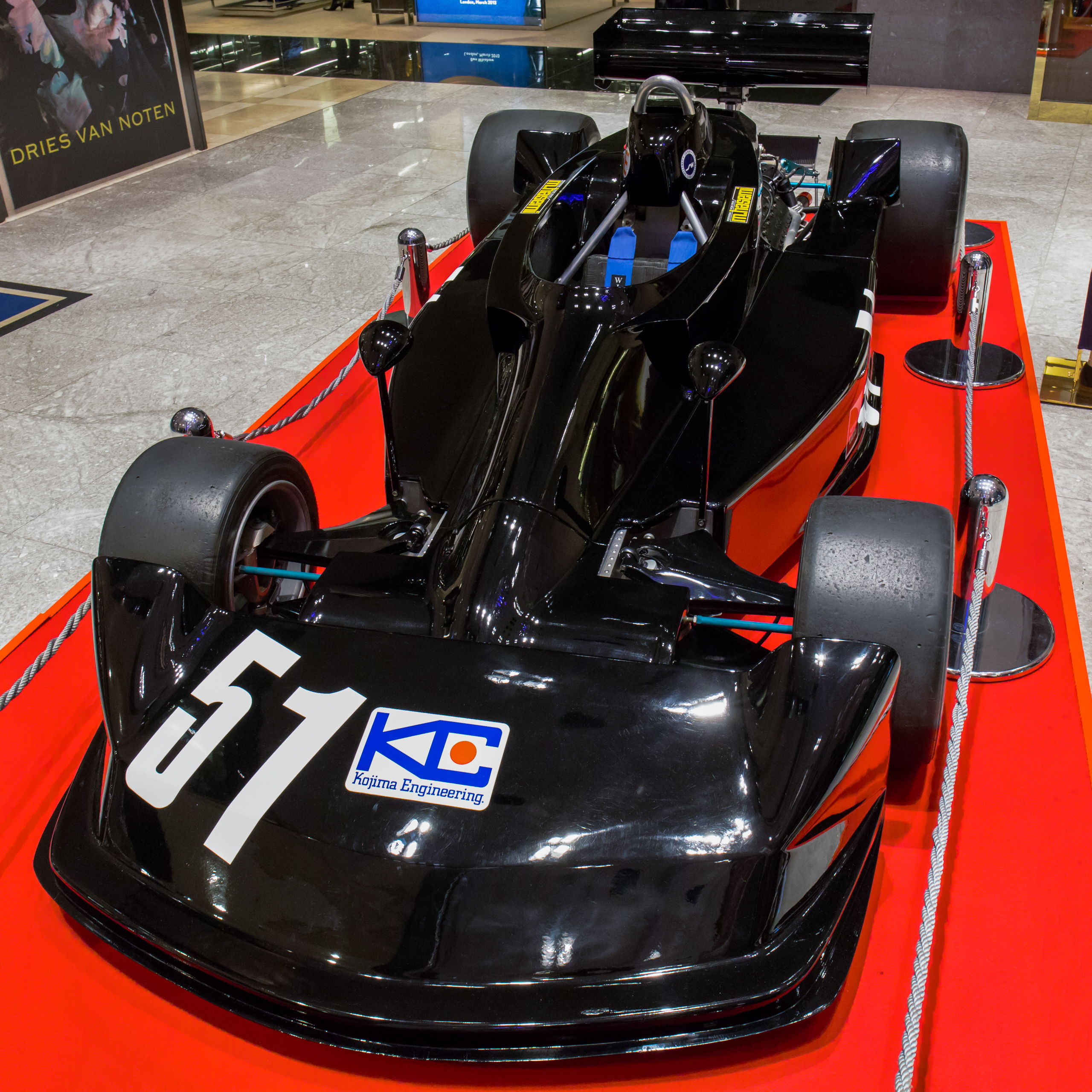 Kojima KE007